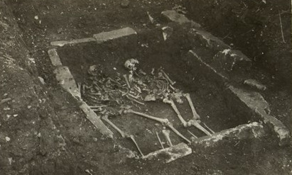 Bulgaria